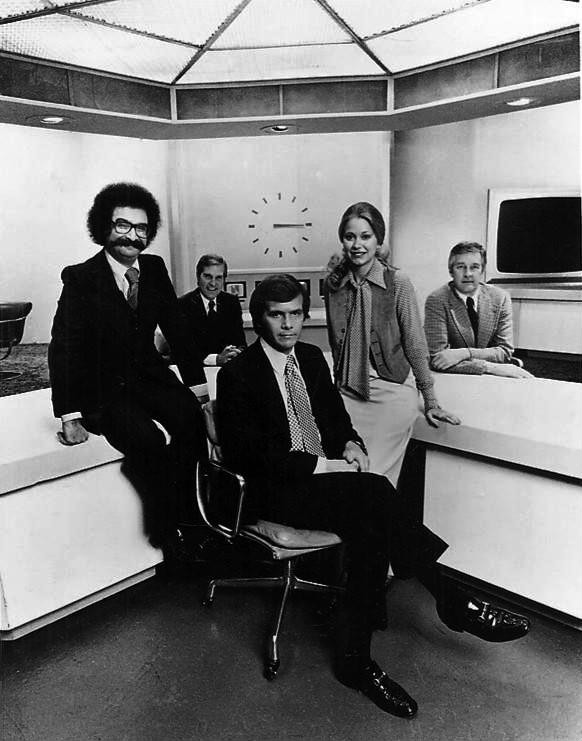 Publicity photo of the 1976 cast from the news television program Today. Center: Tom Brokaw. From left: Gene Shalit, (background) Lew Wood, Jane Pauley, Floyd Kalber.